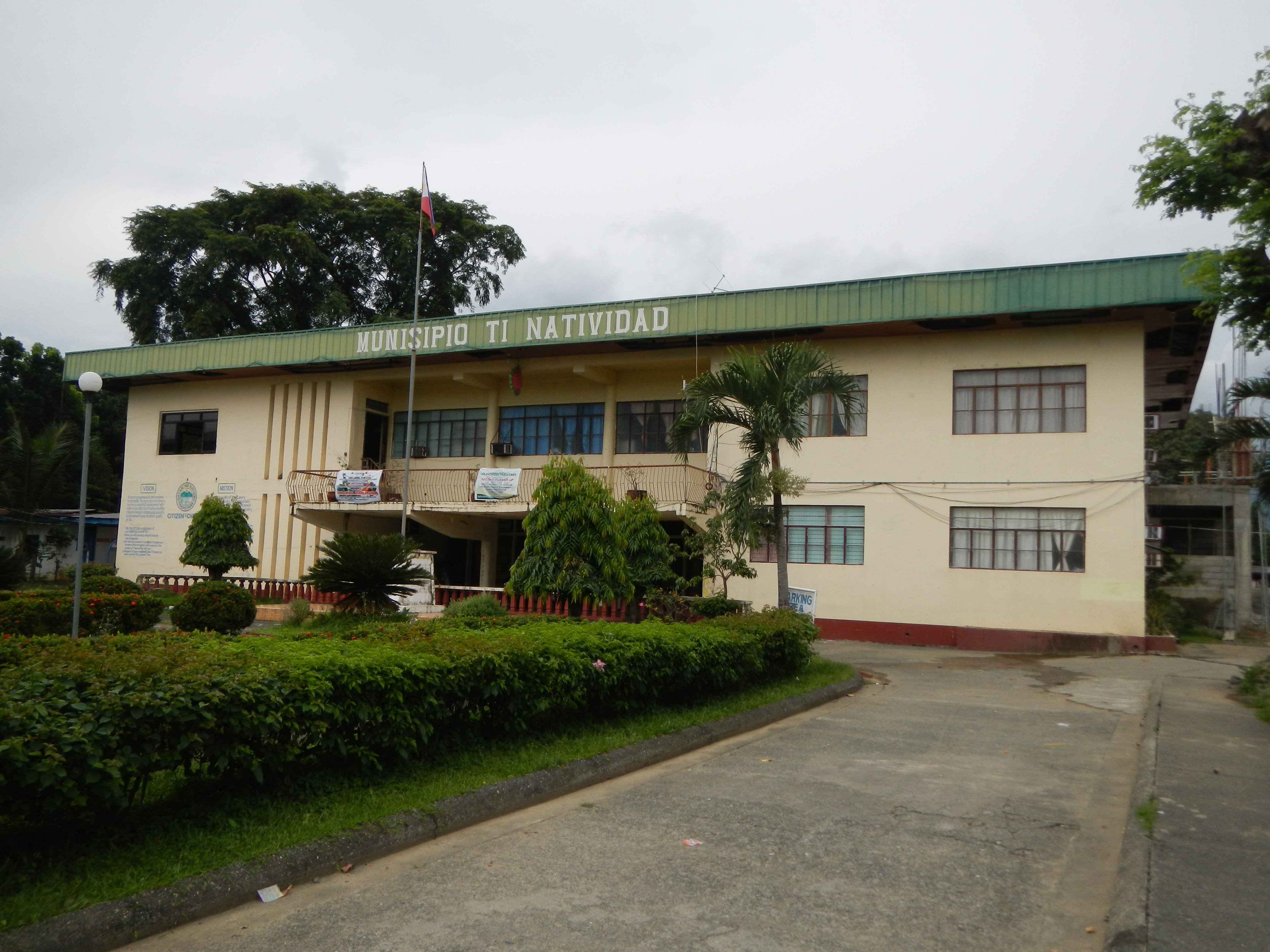 UploadWizard photos -- (General description) -- of --Municipal Town Hall of -- Natividad, Pangasinan [1] --- the Municipal Disaster Operations Center, Directory, Municipal Town Hall of Natividad, Natividad Children's Park & Plaza, Josefina Sansano Gate, with Glorietta, Rizal Monument, Police Station, Public Market and commercial business center, establishments, in Centro, downtown, Welcome (to Beautiful Natividad) Arch of the Park - De Leons Gate, all these - surrounding the Center Municipal Town Hall of - Natividad, Pangasinan [2] [3] Land Area: 34.50 km² ZIP Code: 2446 Coordinates: 16°2'41"N 120°49'49"Epolitically subdivided into 18 barangays: a 4th class municipality of Pangasinan,[4]Philippines, 2007 census, with a population of 19,870 people in 4,153 households. Website [5] Coordinates: 16°2'37"N 120°47'44"E Municipality of NatividadMap geographical location: Pangasinan, Region 1, Philippines, Asia - Geographical coordinates are 16° 2' 30" North, 120° 48' 1" East and its original name (with diacritics) is Natividad.[6] founded on March 7, 1902.